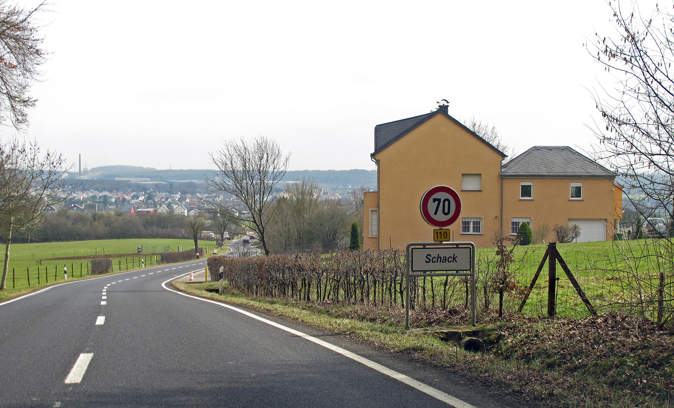 Place called Schack near Bascharage, Luxembourg